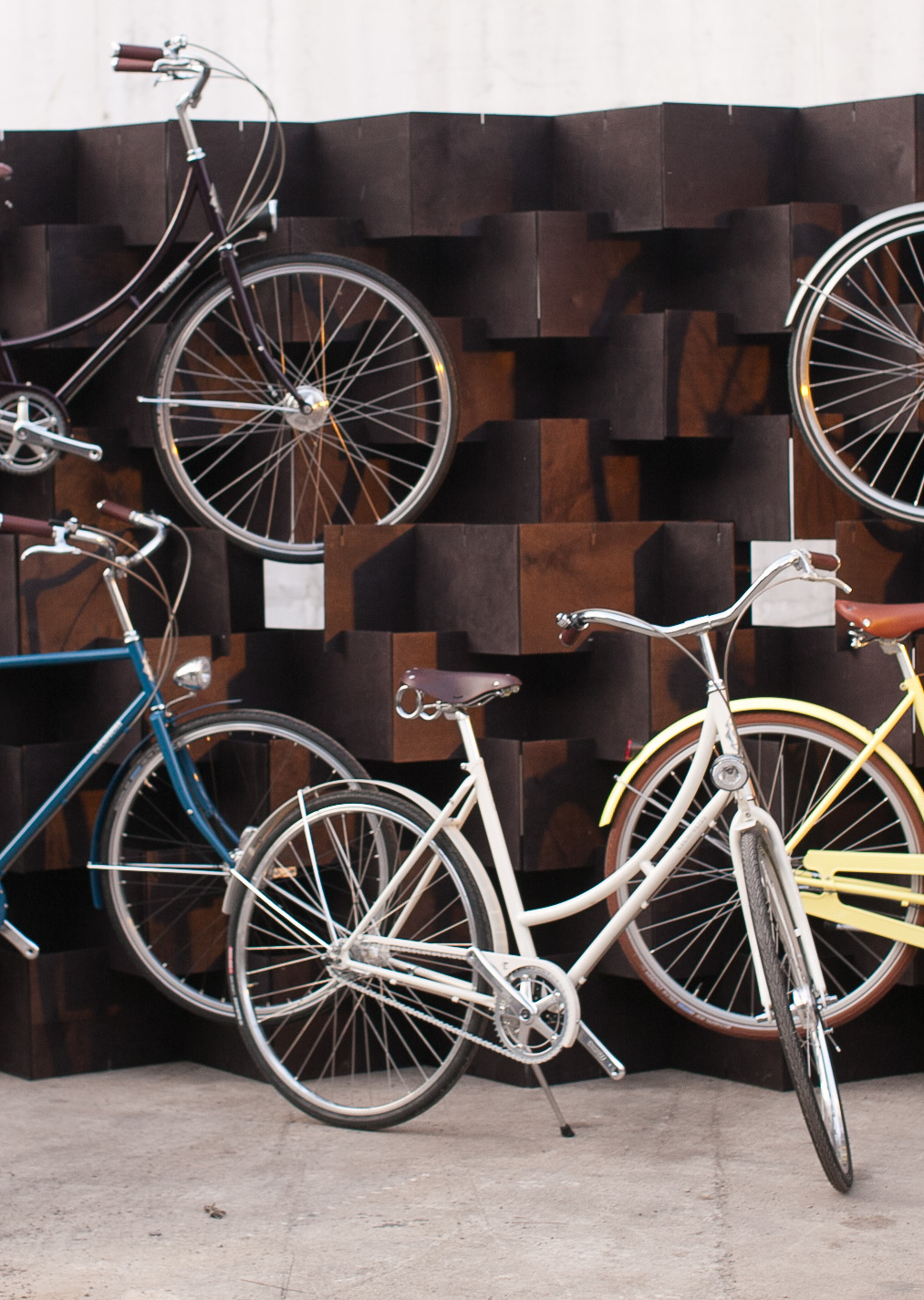 Picture of Ērenpreiss bicycle model Paula taken in Yard festival 2015.